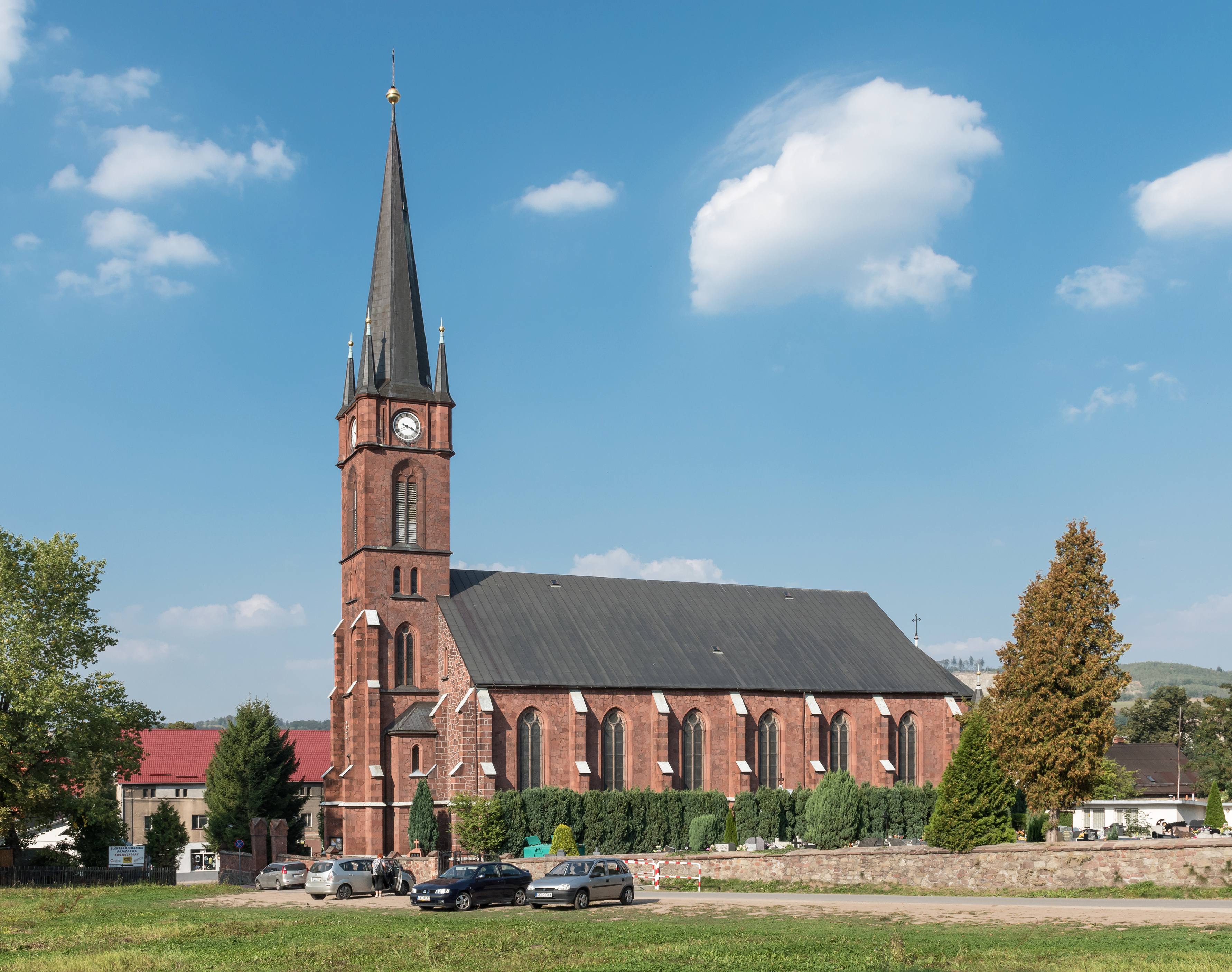 Saint Catherine of Alexandria church in Nowa Ruda